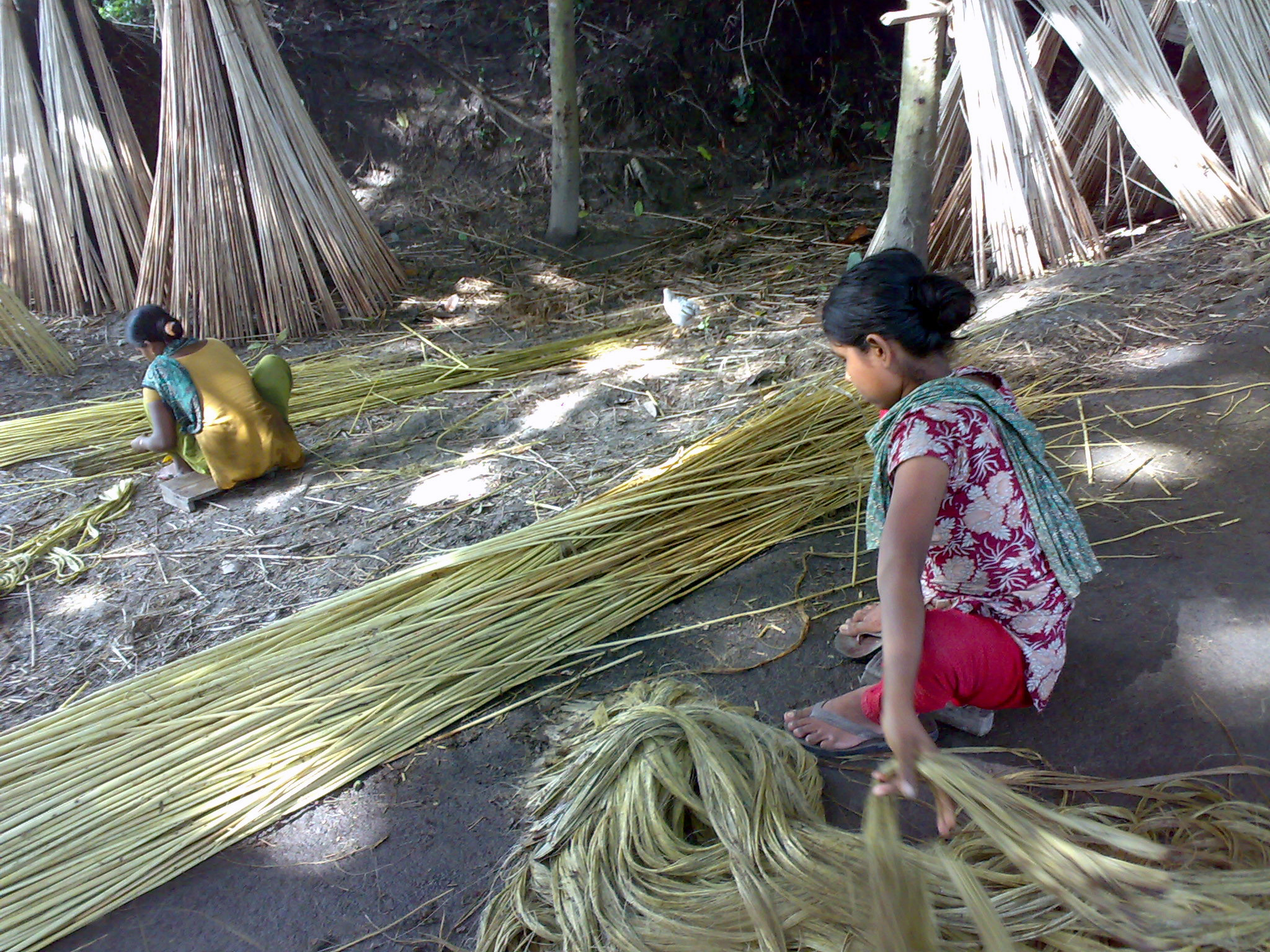 Rainy Season Jute Maintenance